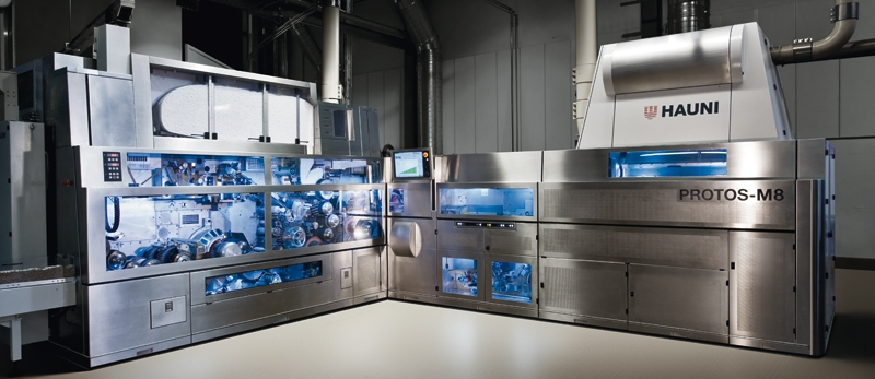 High-speed cigarette machine Hauni PROTOS-M8